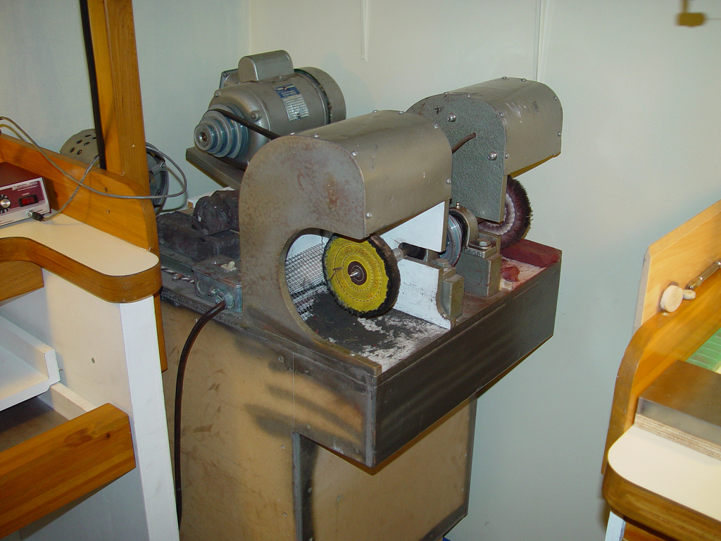 Photography taken by a Canadian jeweller